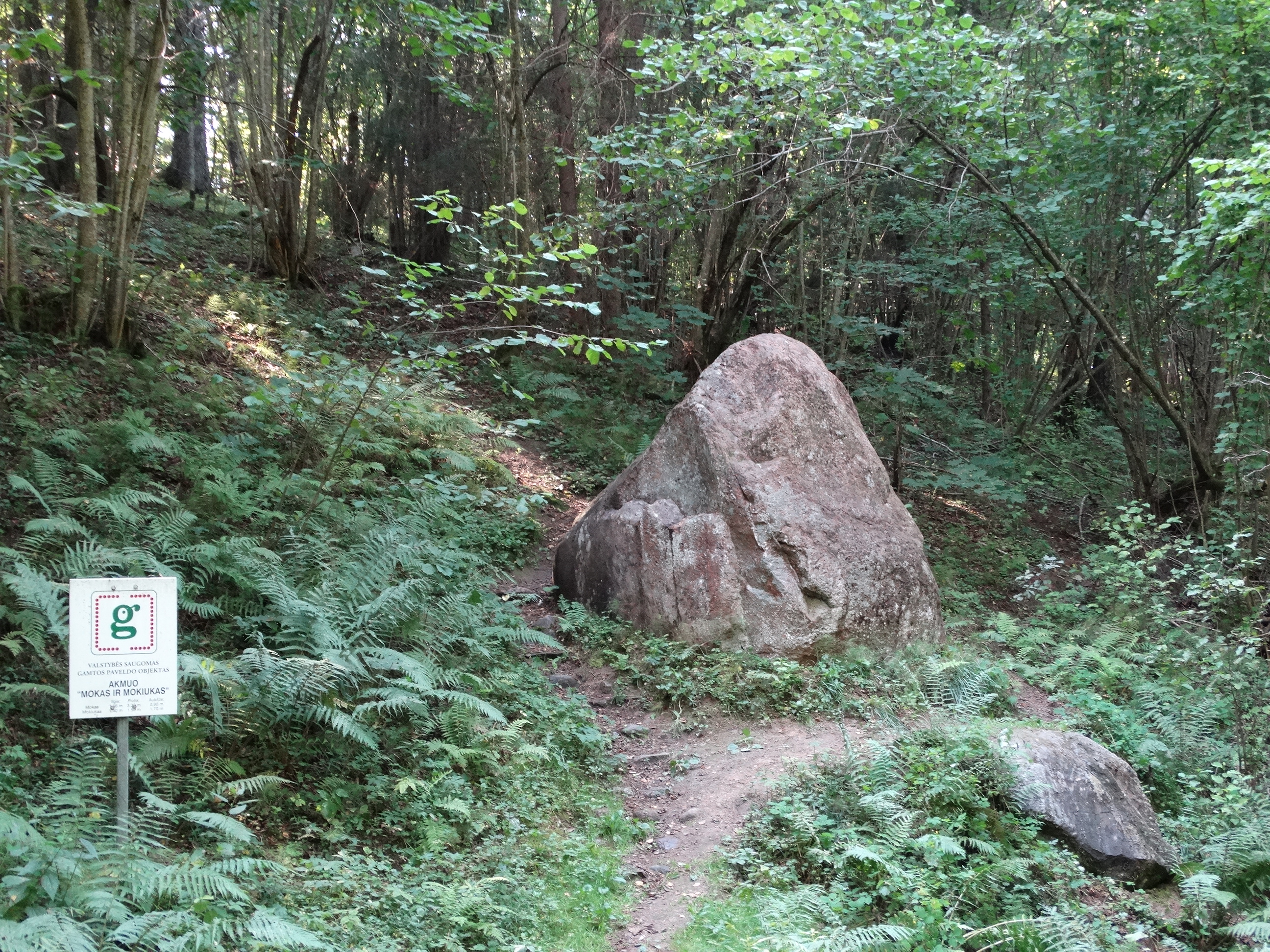 Stone „Mokas ir Mokiukas“, Utena District, Lithuania